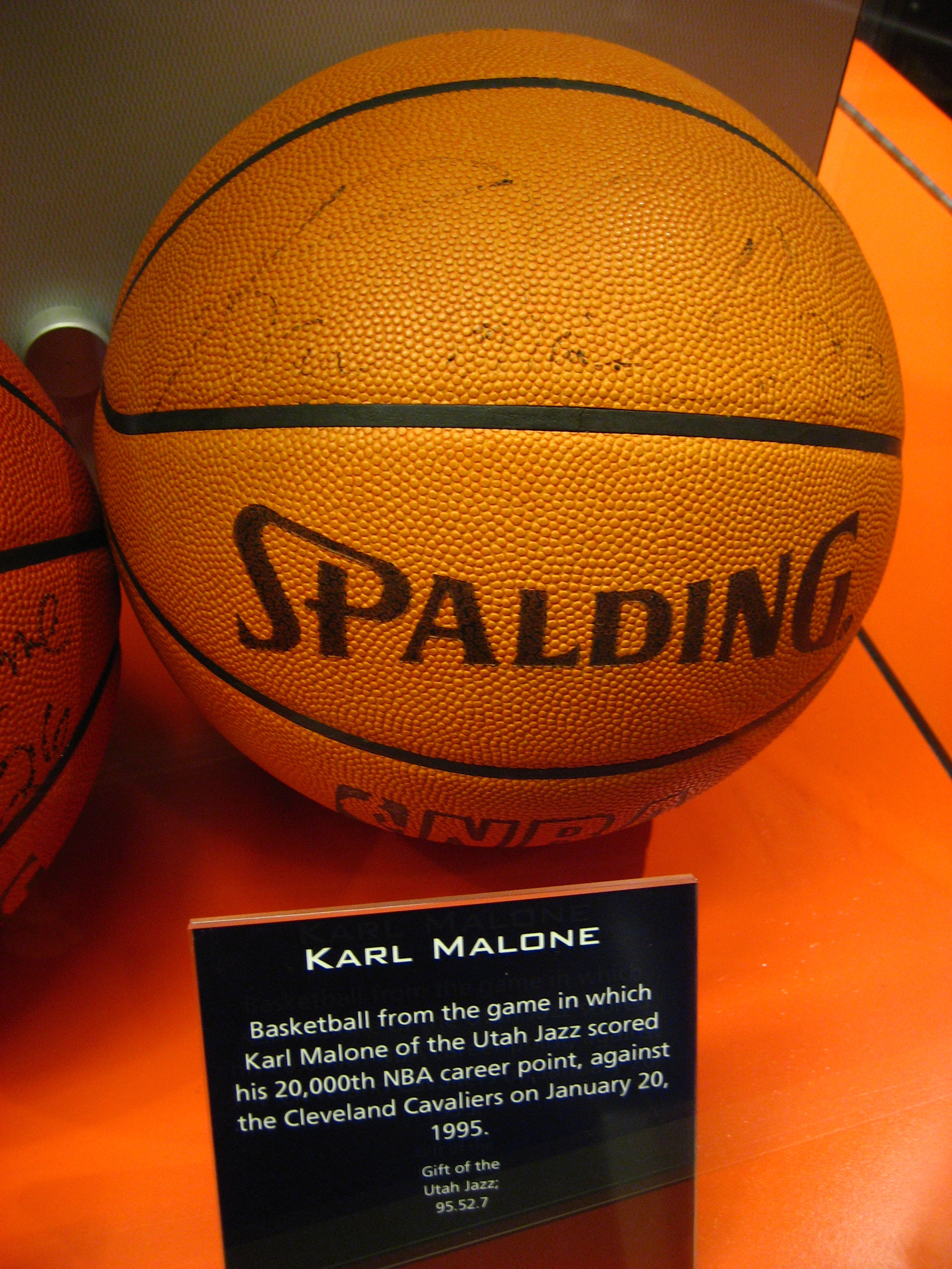 At the Basketball Hall of Fame and Museum in Springfield, MA.